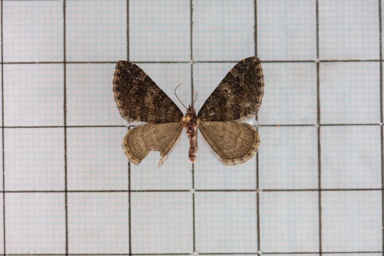 Atopophysa opulens Prout 灰綠窩尺蛾 鞍1:p.47,Pl.12-28